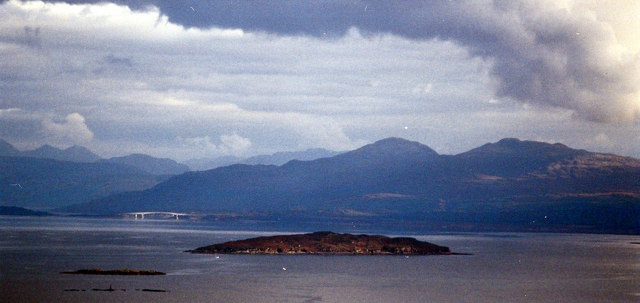 Longay, with the Skye bridge, across the Inner Sound .